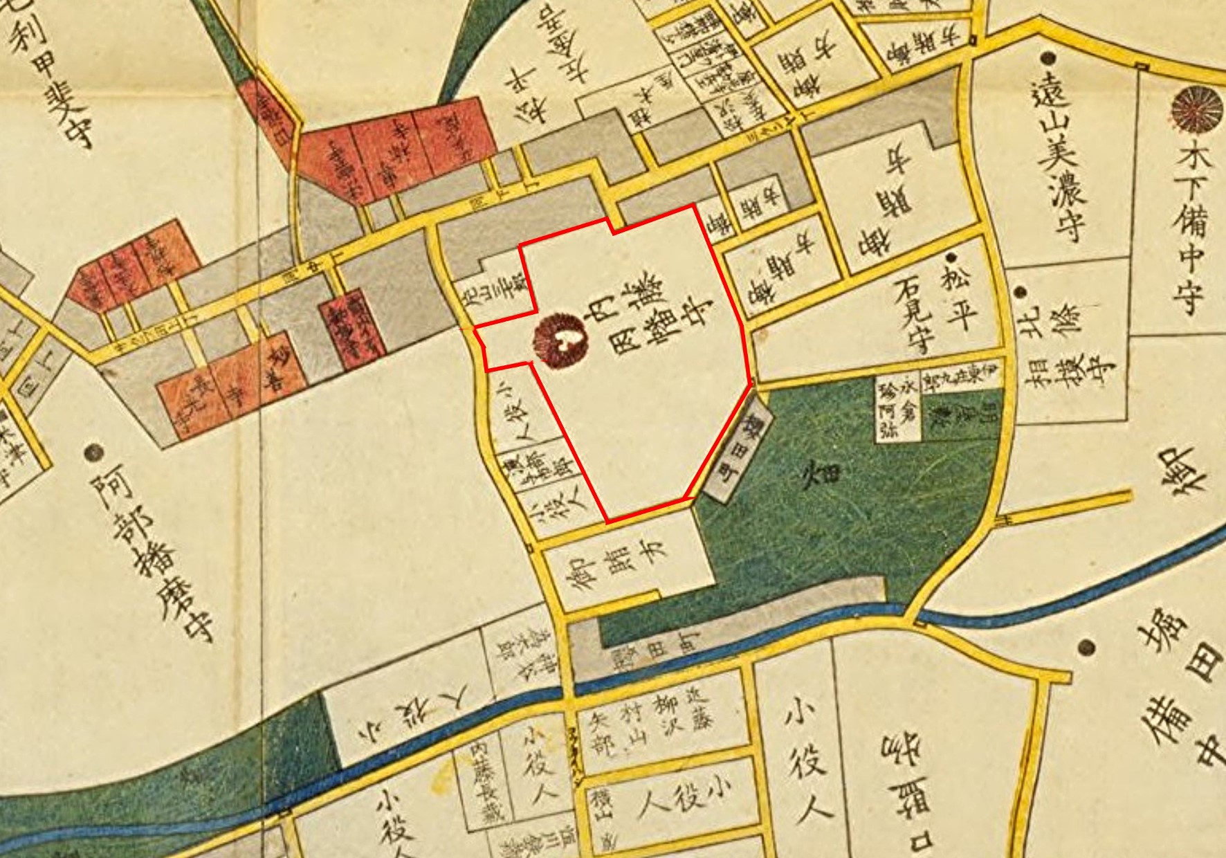 Residence of Naito Yunagaya clan